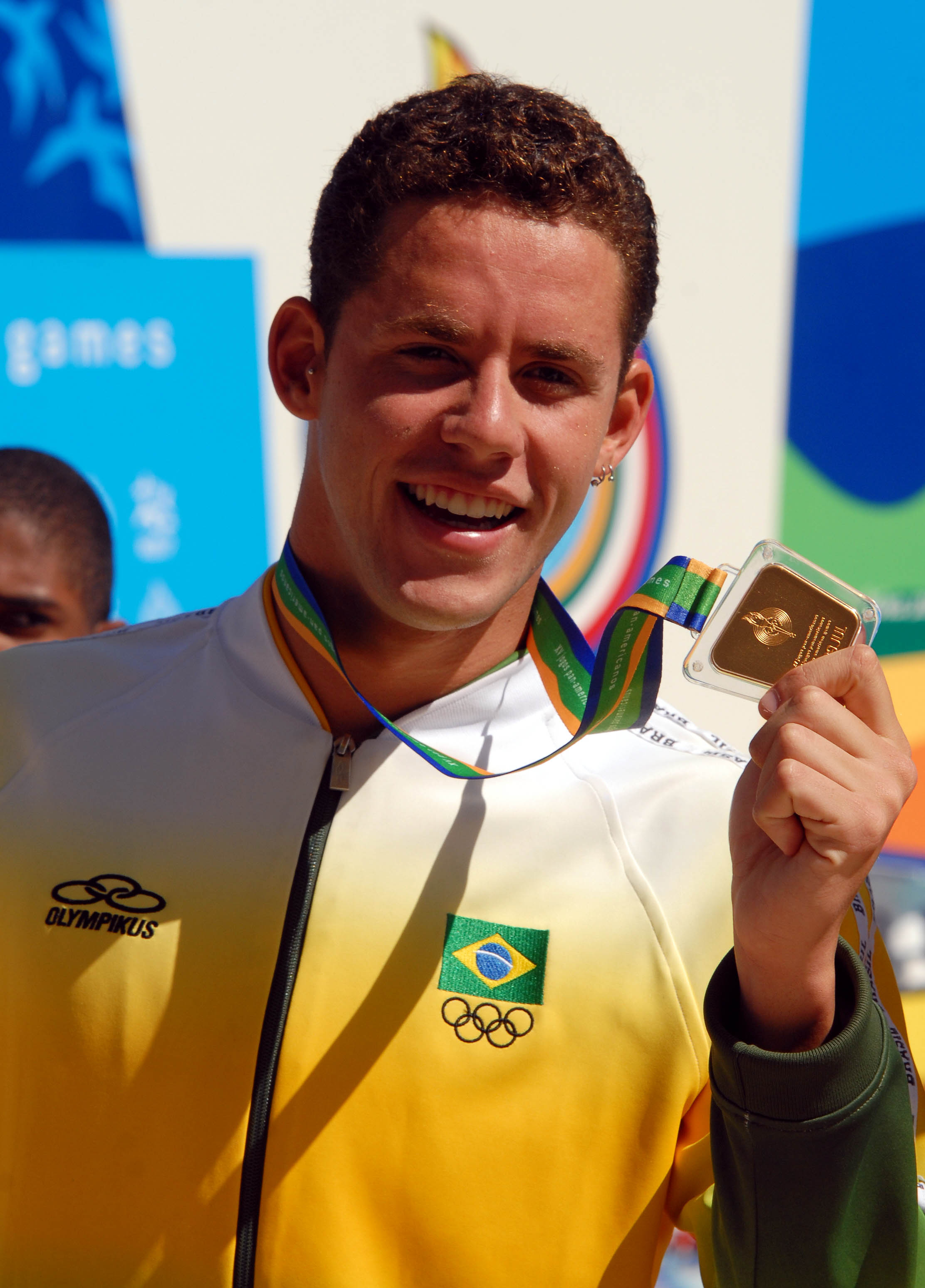 Brazilian swimmer Thiago Pereira wins the 200m Medley at the 2007 Pan American Games